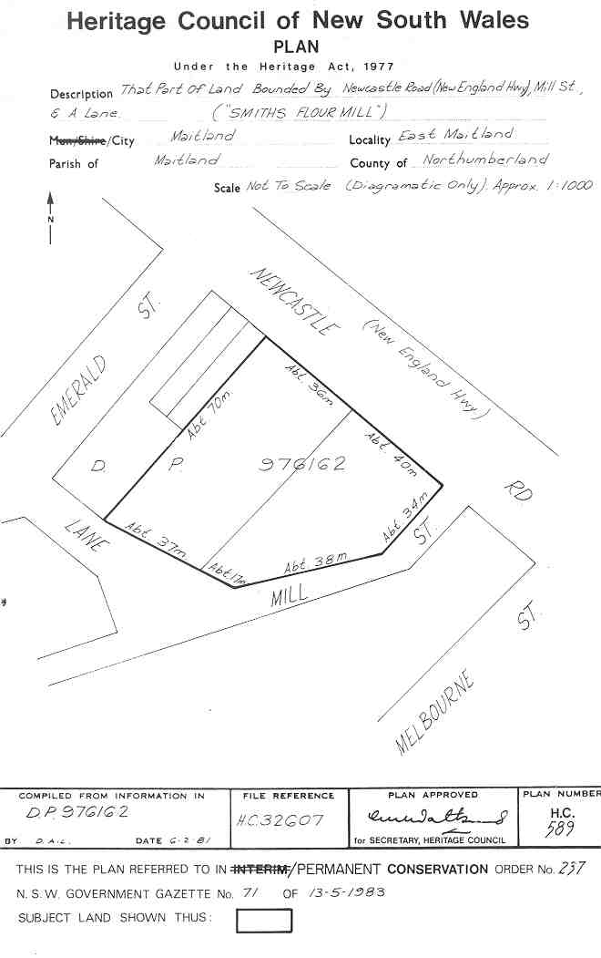 Smith's Flour Mill: PCO Plan Number 237